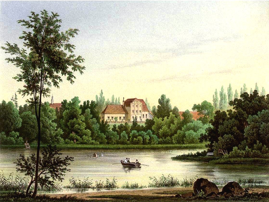 Manor in Klecewo